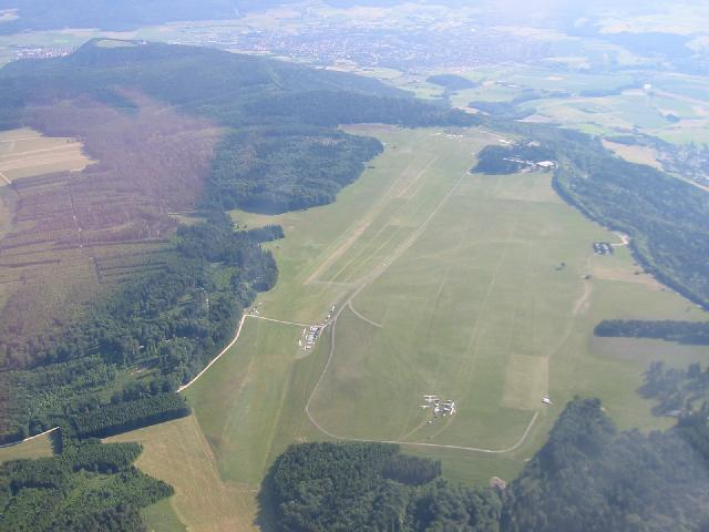 Klippeneck, photo taken from a sailplane